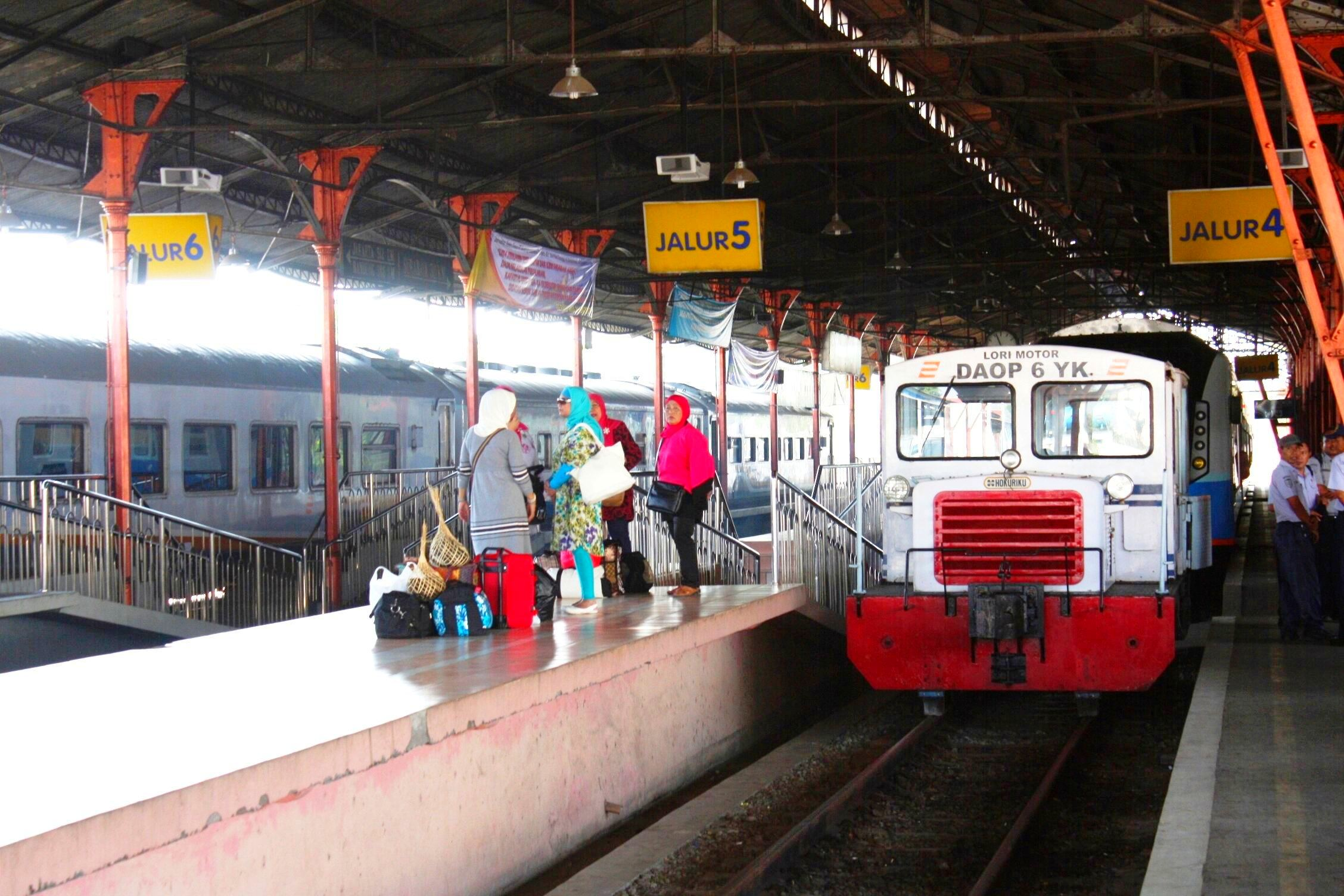 Tugu Station, Yogyakarta, Indonesia